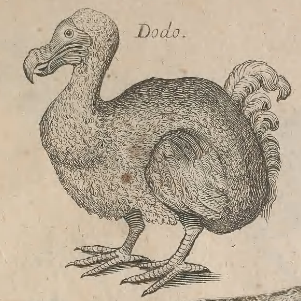 Dodo, from copper plate in John Ray, The ornithology of Francis Willughby, 1678, cropped from plate XXVII